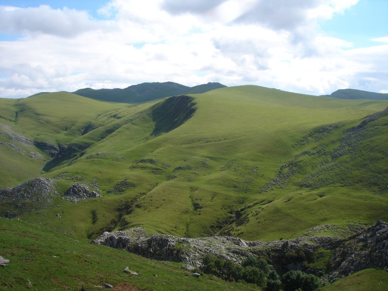 View of Campas de Aralar from Txindoki (Gipuzkoa)